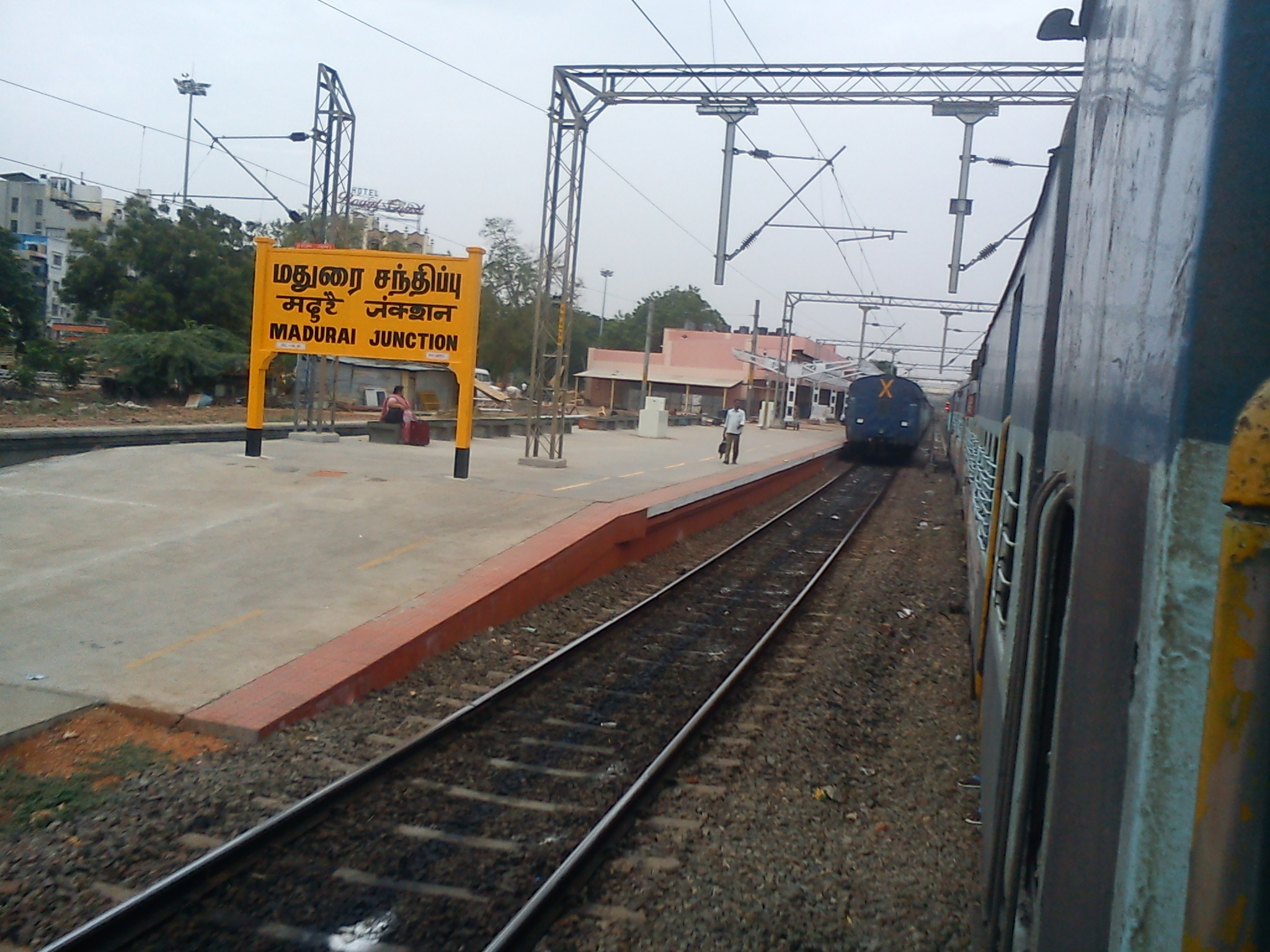 Pandian Express Halted in Madurai Junction